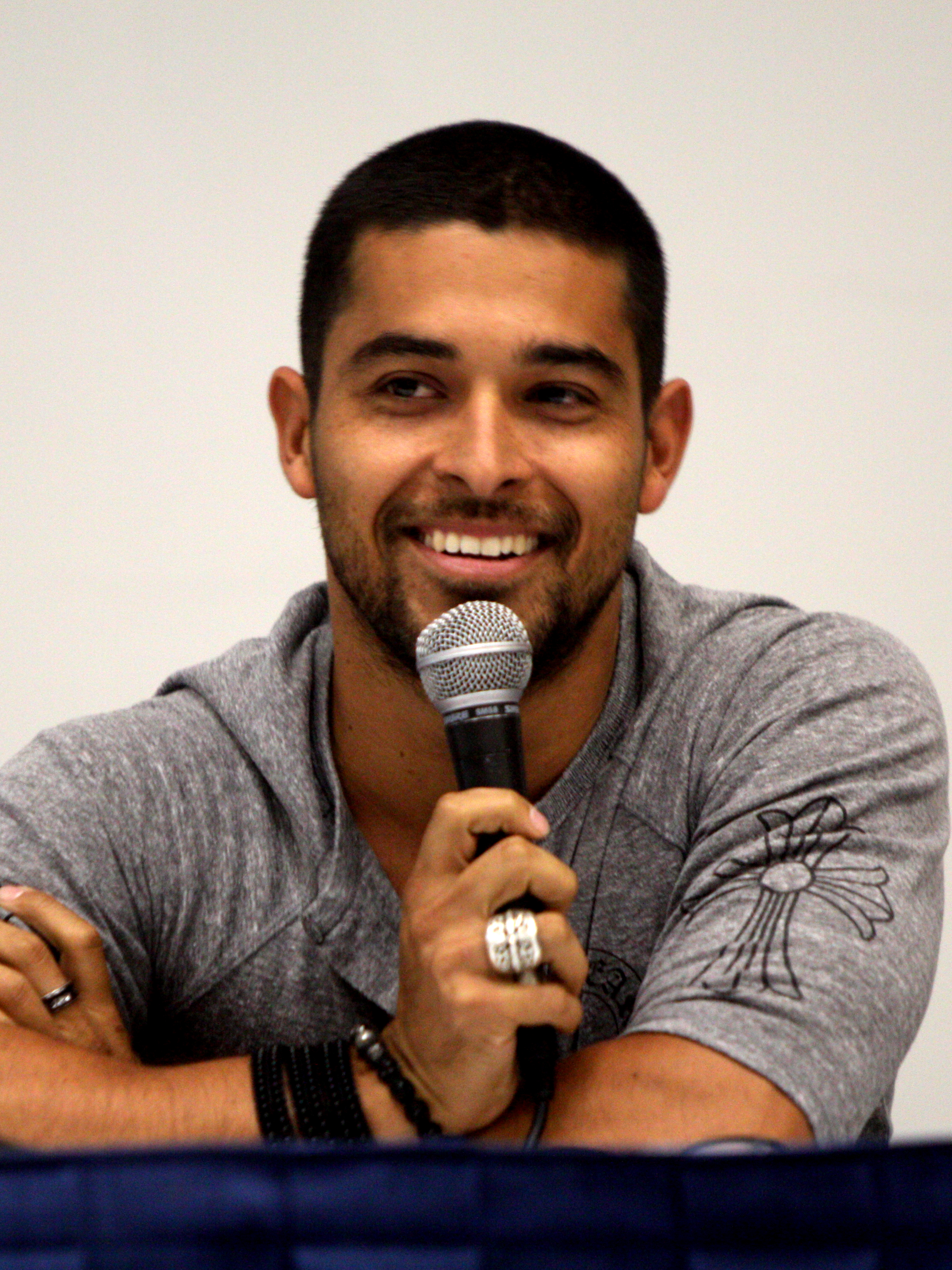 Wilmer Valderrama speaking at VidCon 2012 at the Anaheim Convention Center in Anaheim, California.